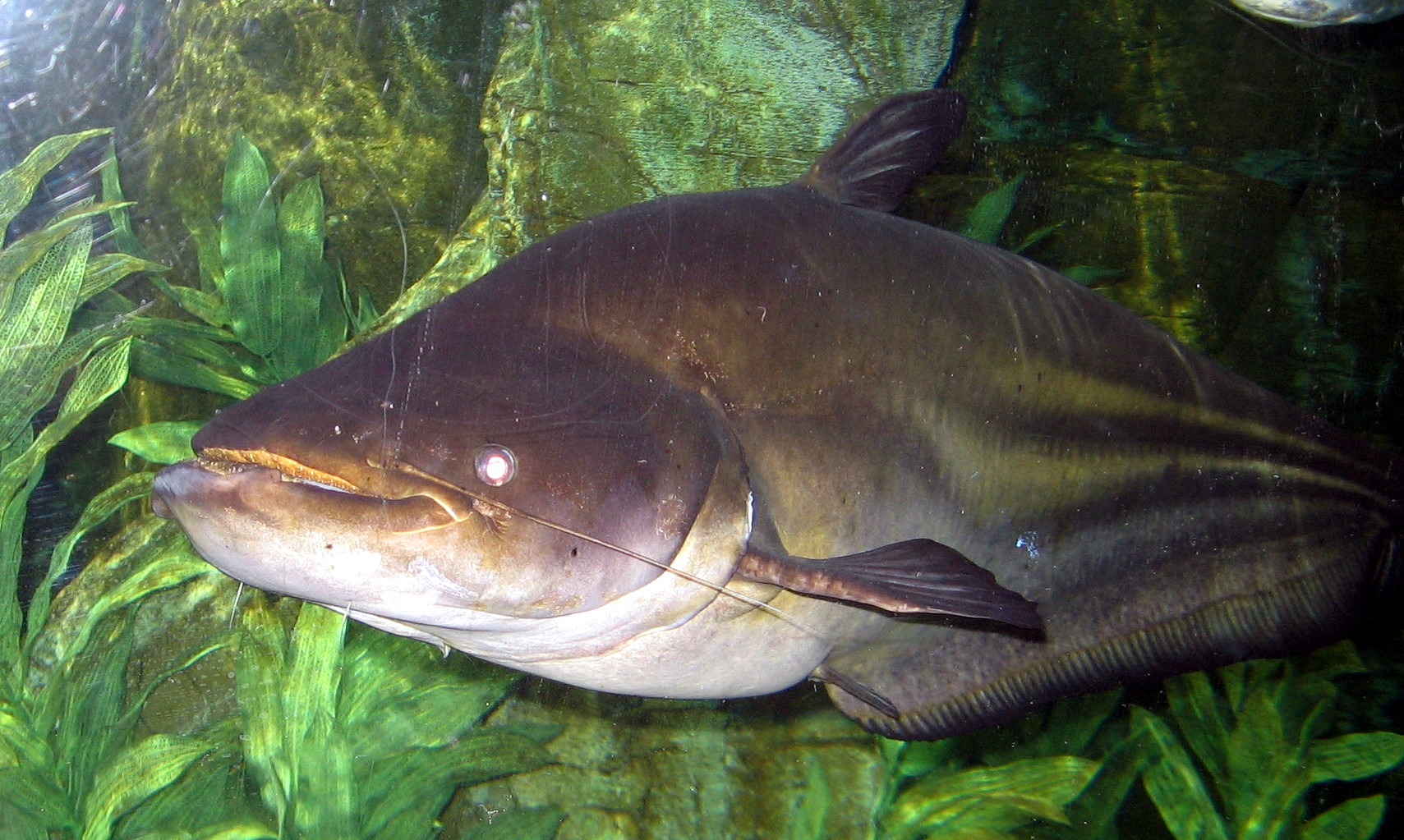 Helicopter catfish (Wallagonia leerii)